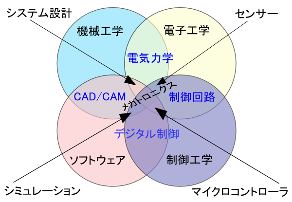 Circle diagram of "What is the mechatronics" png version メカトロニクスの説明用。 png版。